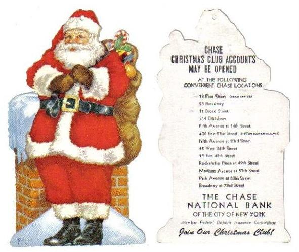 Ad for a Bank Christmas Club, circa 1950